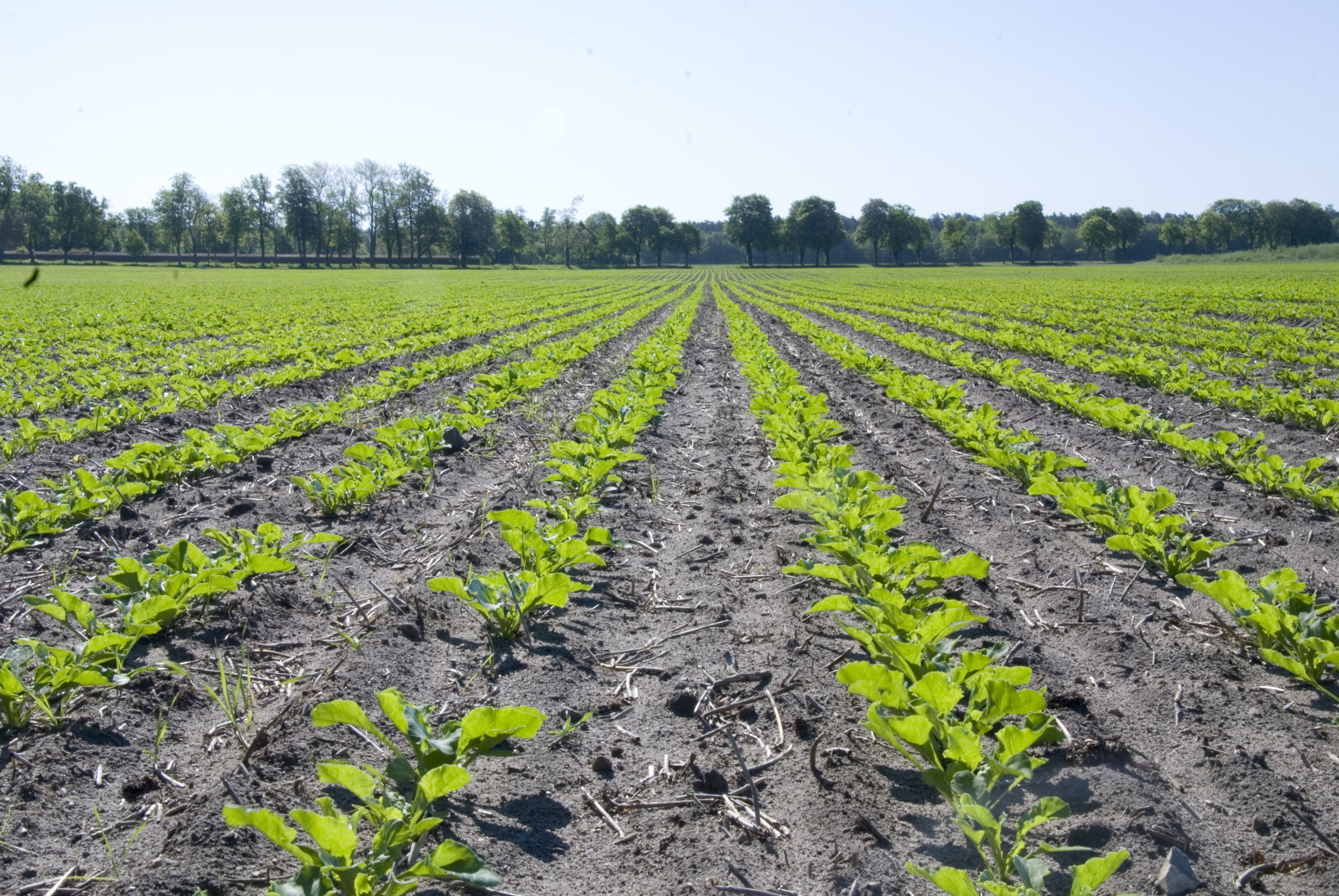 Sugar beet field in Sweden